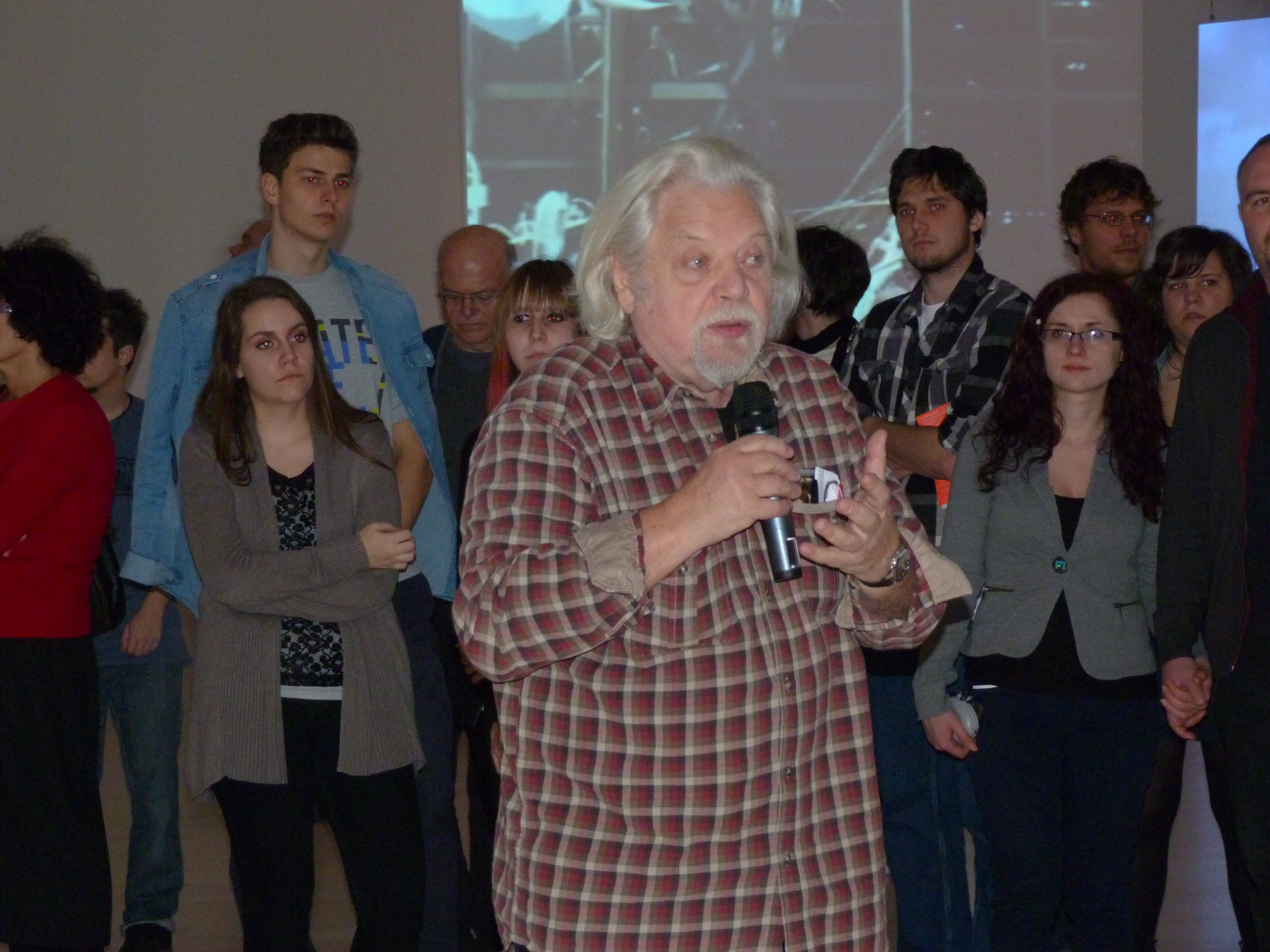 Live on the 9th of november, 2013. Budapest, Ludwig Museum. Jean-Jaques Lebel opened the exhibition Beat Generation. Budapest is the 5th town to open this exhibition On translating poems, On Naked Lunch Sources: Jean-Jaques Lebel Kiállítás nyílik a Beat-nemzedékről Jean-Jacques LEBEL dans le DVD Art et contestation Jean-Jacques Lebel interviews Allen Ginsberg Beat Generation Hegyi Dóra: Jean-Jacques Lebel. Kortárs Mûvészeti Múzeum Ludwig Múzeum Budapest. 1998. április 2 - május 10, in: Jump magazin, No. 1, 1998. 36. Categories: 1936 births French art critics French curators Postmodern theory Art curators 20th-century French painters 21st-century French painters Postmodern artists Contemporary artists French artists New media artists Installation artists Media theorists Cultural historians Ludwig Museum – Museum of Contemporary Art, Budapest ©© Derzsi Elekes Andor, Budapest, 2013, You are authorised to use these photos and vids under Creative Commons – even for commercial, for profit purposes. Photos must be attributed to Derzsi Elekes Andor. All of the photos and vids in the Metapolisz DVD line are under Creative Commons and can be used even for commercial – for profit – purposes. Recommended Citation Derzsi Elekes Andor: Metapolisz DVD line